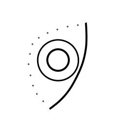 粵語: Nozzle distribution of Wynn Macau Fountain